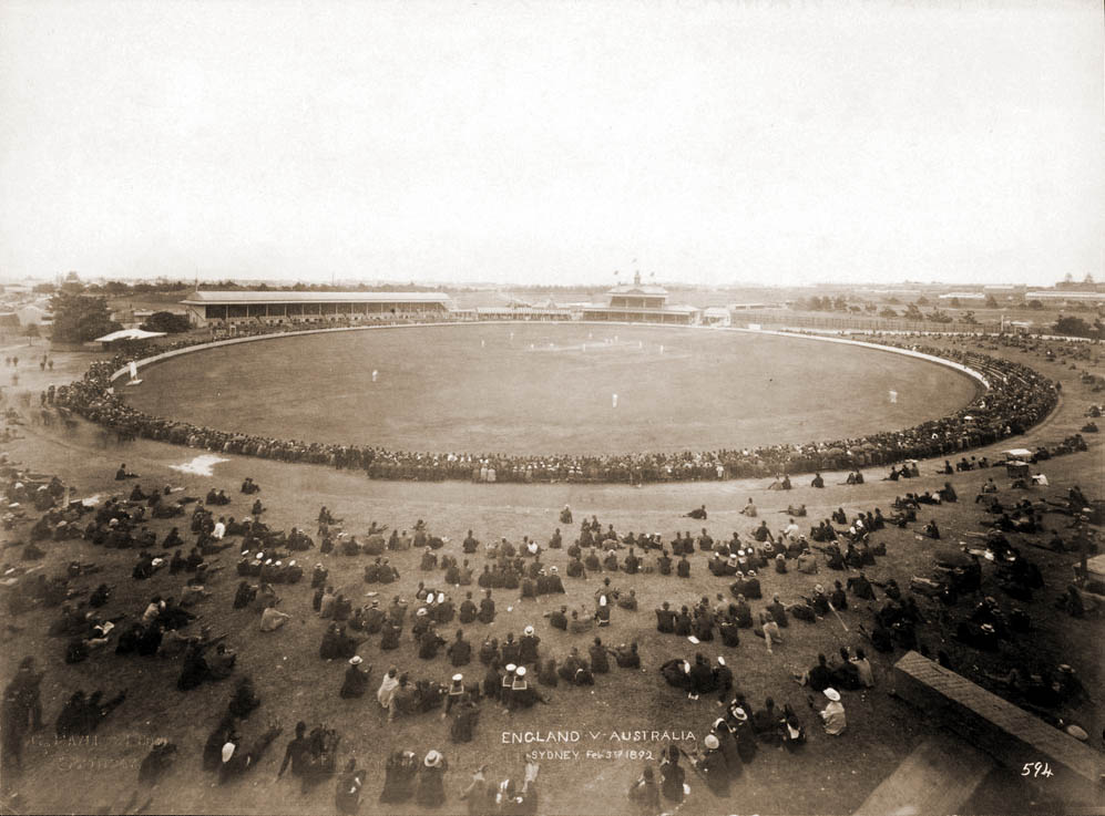 The Sydney Cricket Ground. Title devised by cataloguer based on inscription.; In album: New South Wales photographs, 1880-1900.; Inscriptions: "C. Bayliss, photo, Sydney"--Photographer's blind stamp, lower left corner; "England v. Australia, Sydney Feb. 3rd. 1892"--Printed middle lower edge; "594"--Printed on lower right corner.; Condition: Slight yellowing, fading and silvering, creased corners, tear on right lower edge.